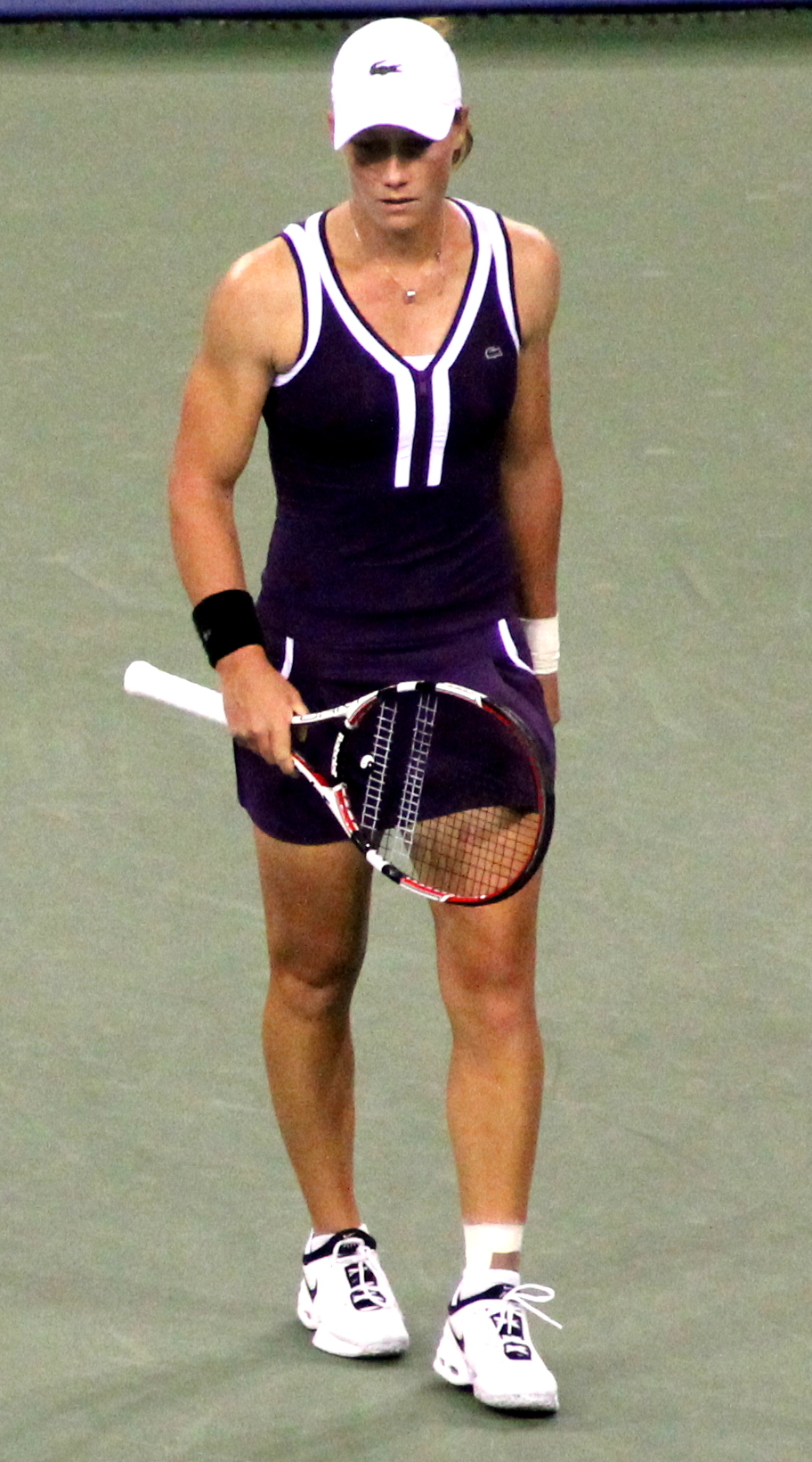 Clijsters vs. Stosur match on Tuesday night, 9/7 at the US Open. The Cosmopolitan is in New York for the 2010 US Open, inviting attendees and guests to experience signature views from our Overlook and in our custom designed suite with prime-stadium seating. For more information on The Cosmopolitan visit